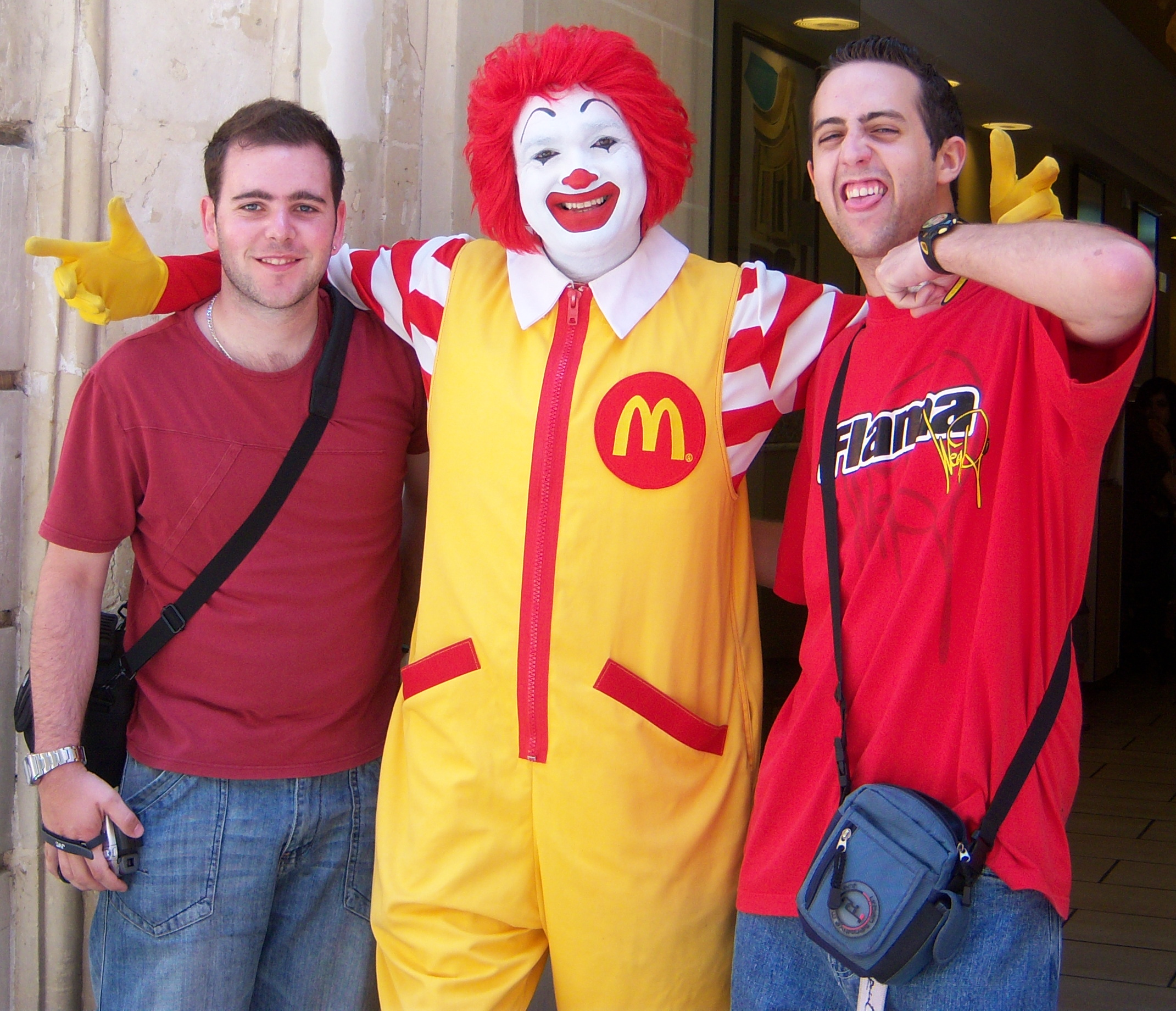 Ronald Mcdonald